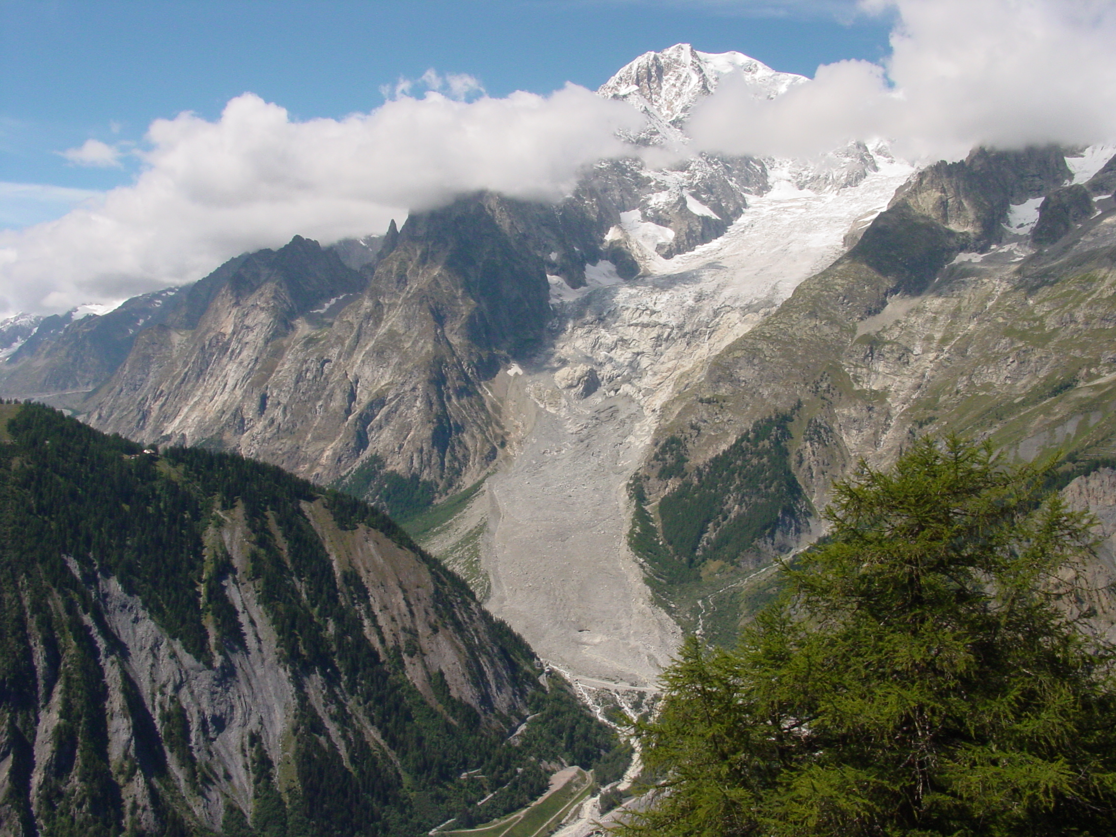 View of Monte Bianco and a glacier below.